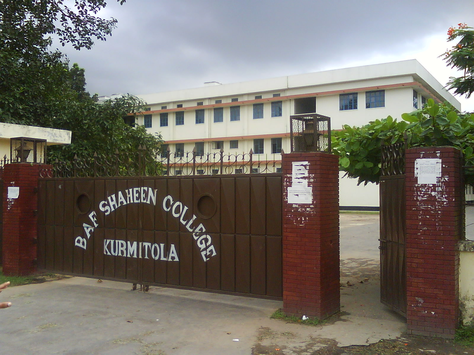 Author : Rashed-Al-Qayum (the raqs) King JABBAR Orofe CHATUR Summary Author : Rashed-Al-Qayum